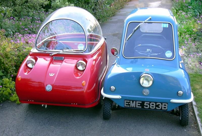 A Peel Trident replica next to an original Peel P50.